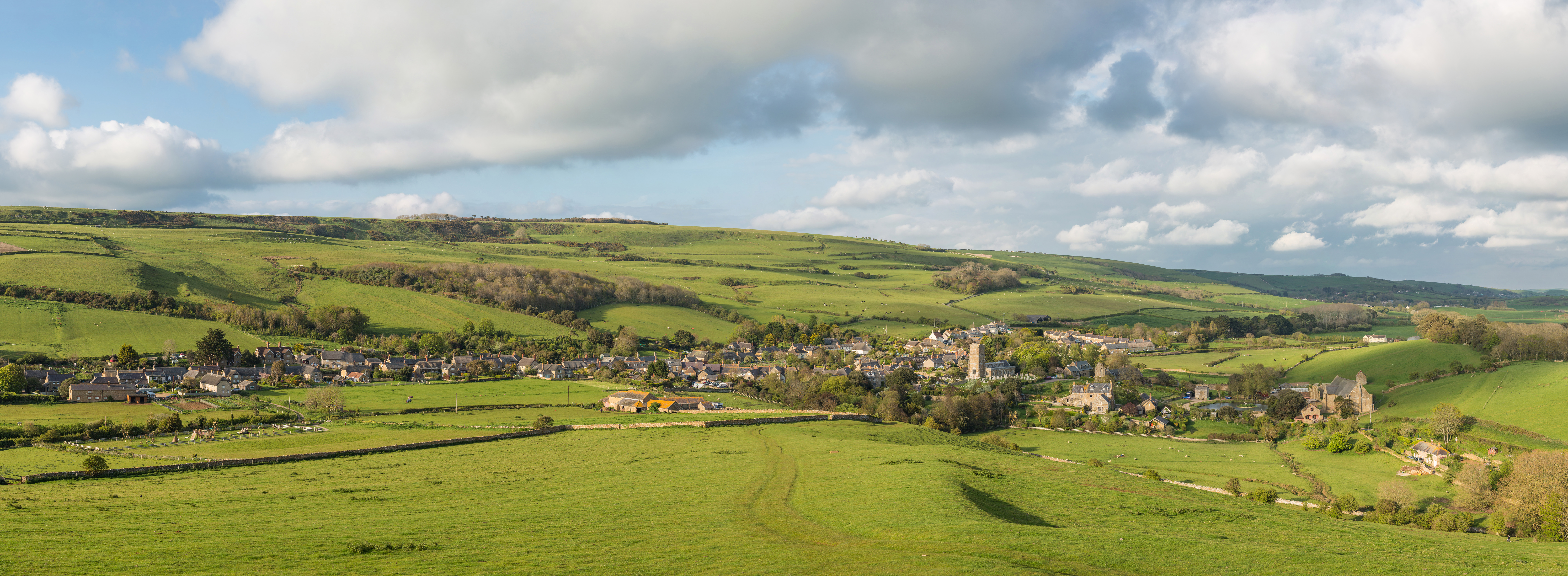 Panorama of the village of Abbotsbury, Dorset, UK, as viewed from the south-west at St Catherine's Chapel.